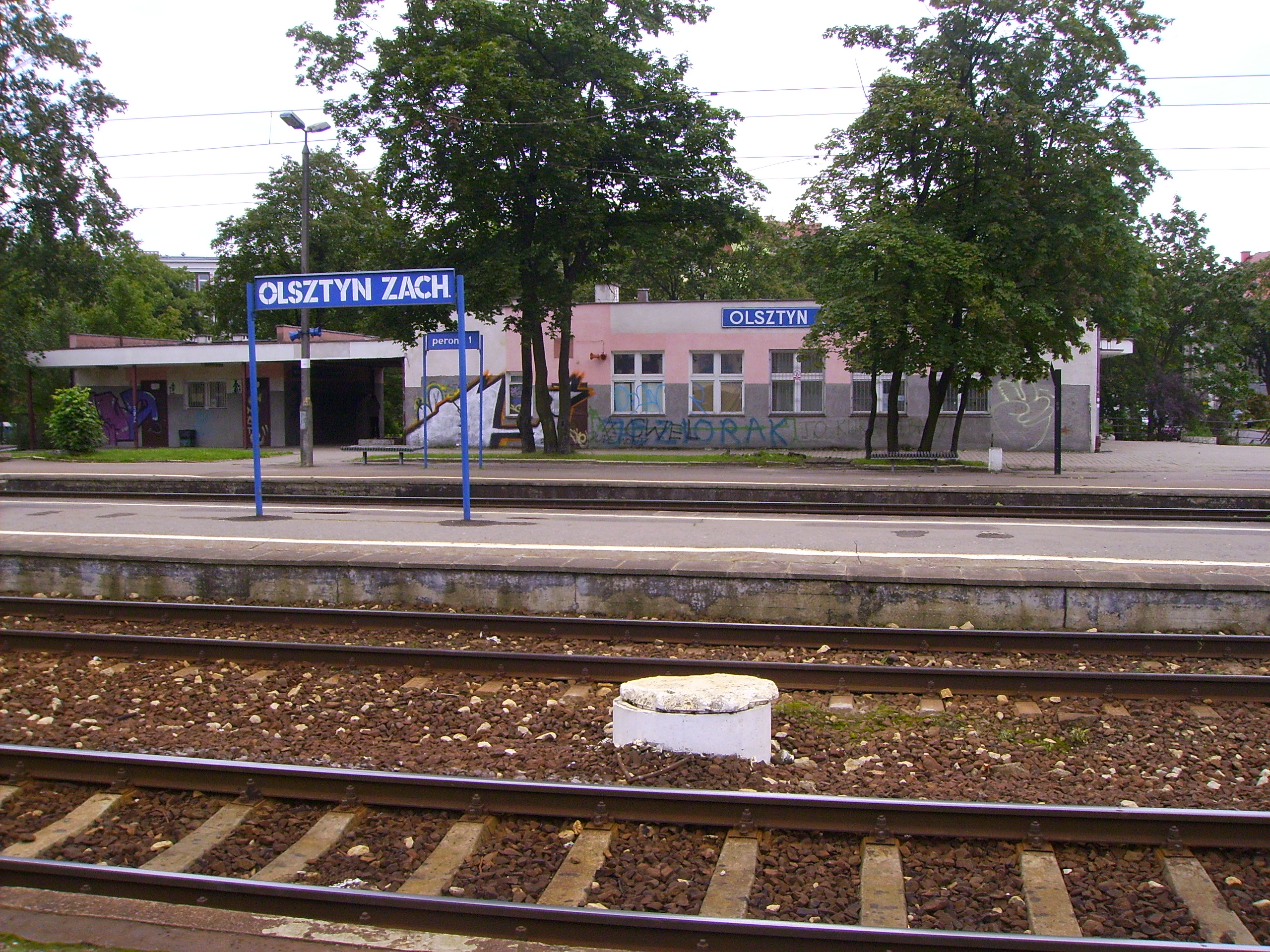 Stop Olsztyn Zachodni, Masuria, Polen.